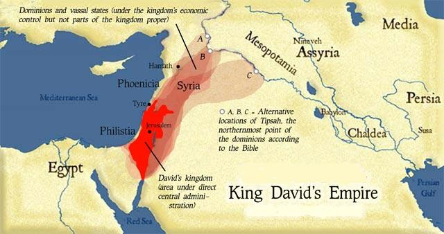 This is dervative work of Image:Davids-kingdom.jpg, which was done by user:Meteormaker and I made a couple of more corrections.